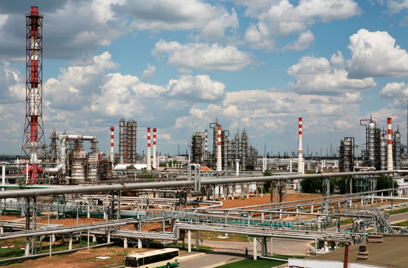 Industry in Volgograd Oblast.